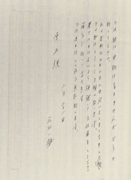 The letter to Genzo Seki from Kazuo Ishikawa.